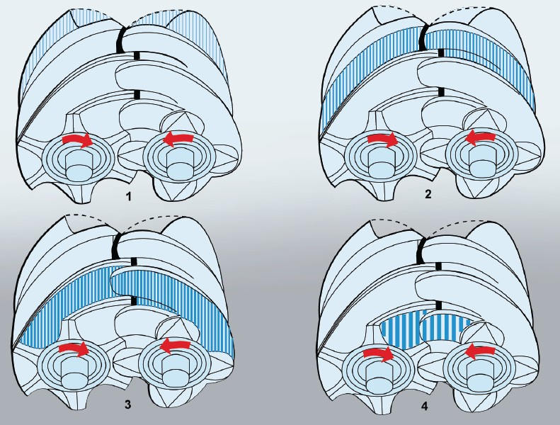 Screw blower working principle